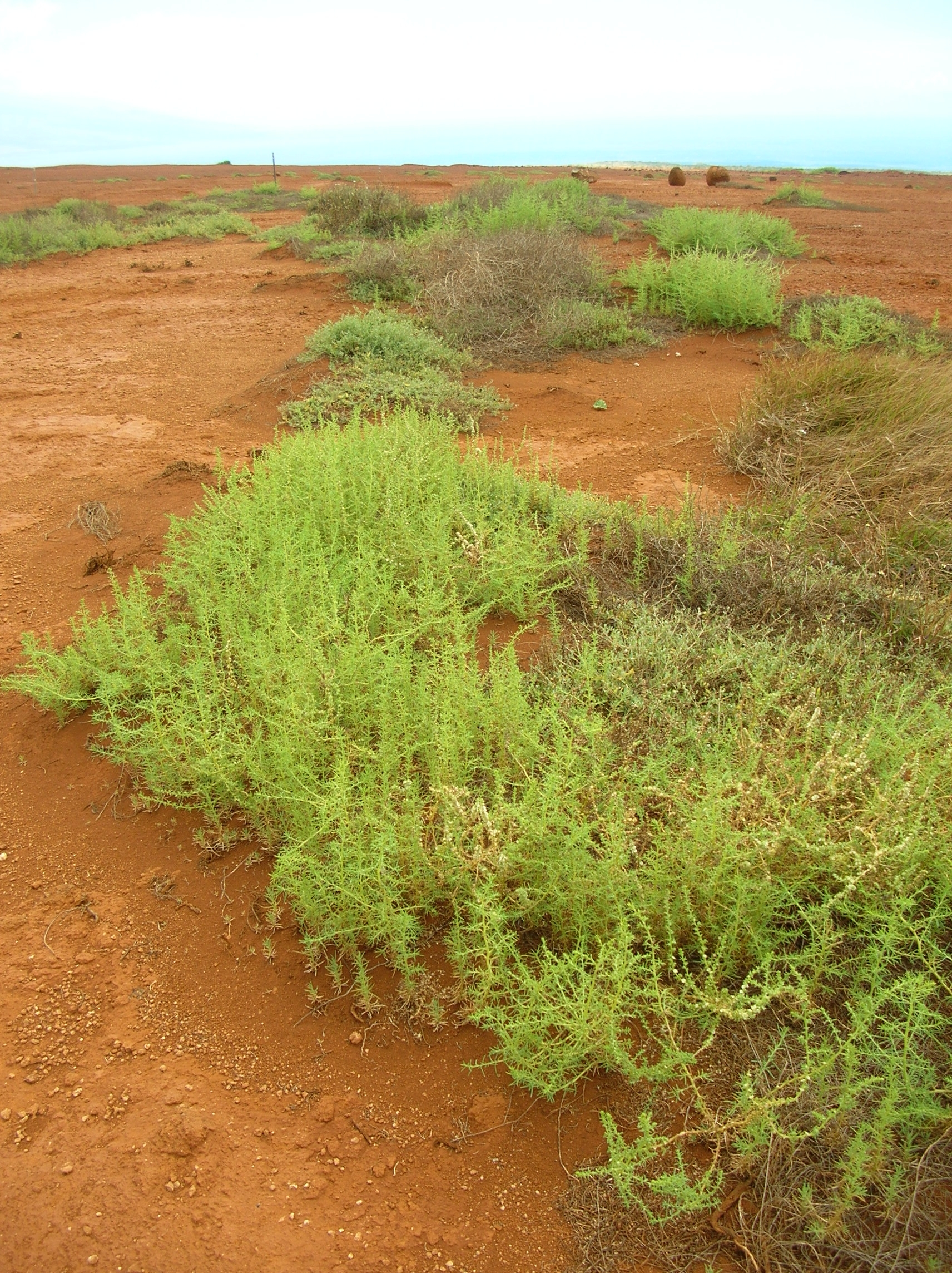 Salsola tragus (infestation). Location: Kahoolawe, K2